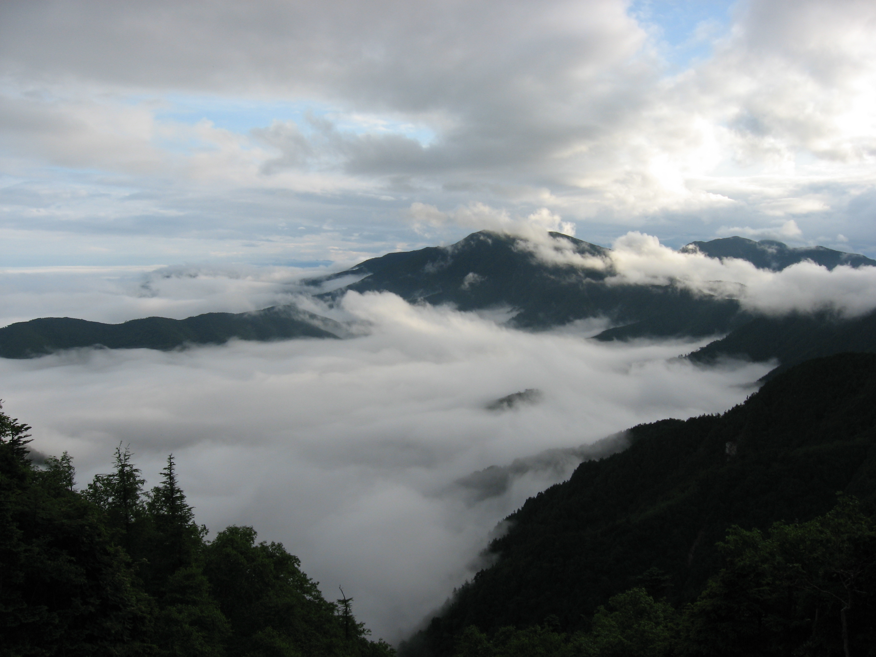 Mount Kokushi (Kokushi-ga-take) as seen from Mount Tokusa (Tokusa-yama) in the Okuchichibu Mountains, Japan